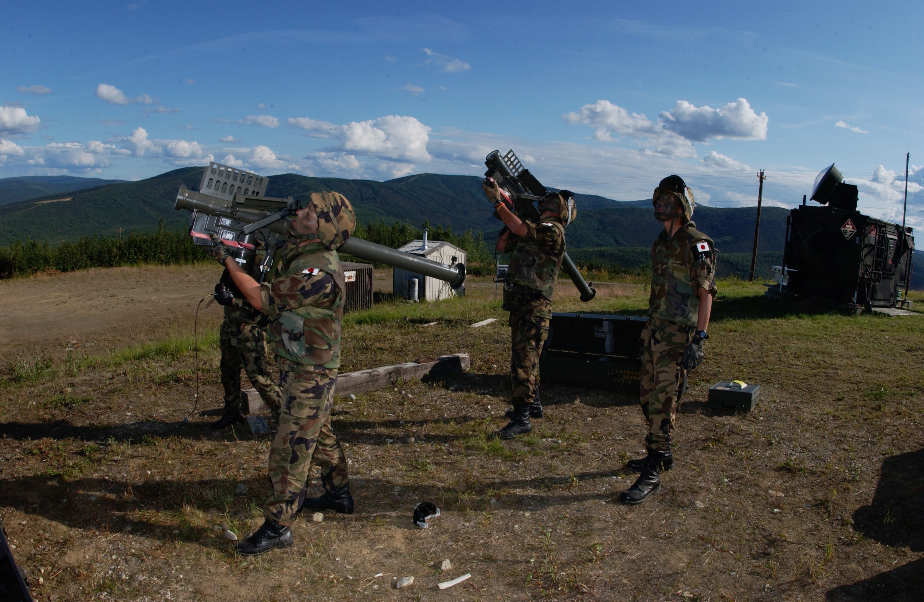 EIELSON AIR FORCE BASE, Alaska -- Staff Sgt. Kenichira Watanabe (Middle) and Staff Sgt. Tomokazu Zmae (Left), missile operator, Japanese Air Self Defense Force, aims a Type 91 Sam-2 Surface to Air missile launcher at enemy aircraft while Staff Sgt. Kensuke Hamanishi (Right), missile operator, Japanese Air Self Defense Force watches for enemy aircraft on the Pacific Alaskan Range Complex on July 24 during Red Flag-Alaska 07-3. With 67,000 square miles of rugged terrain, Japanese Forces are able to train tracking low flying aircrafts against a mountain back drop; this type of training is unavailable to them at their home station.